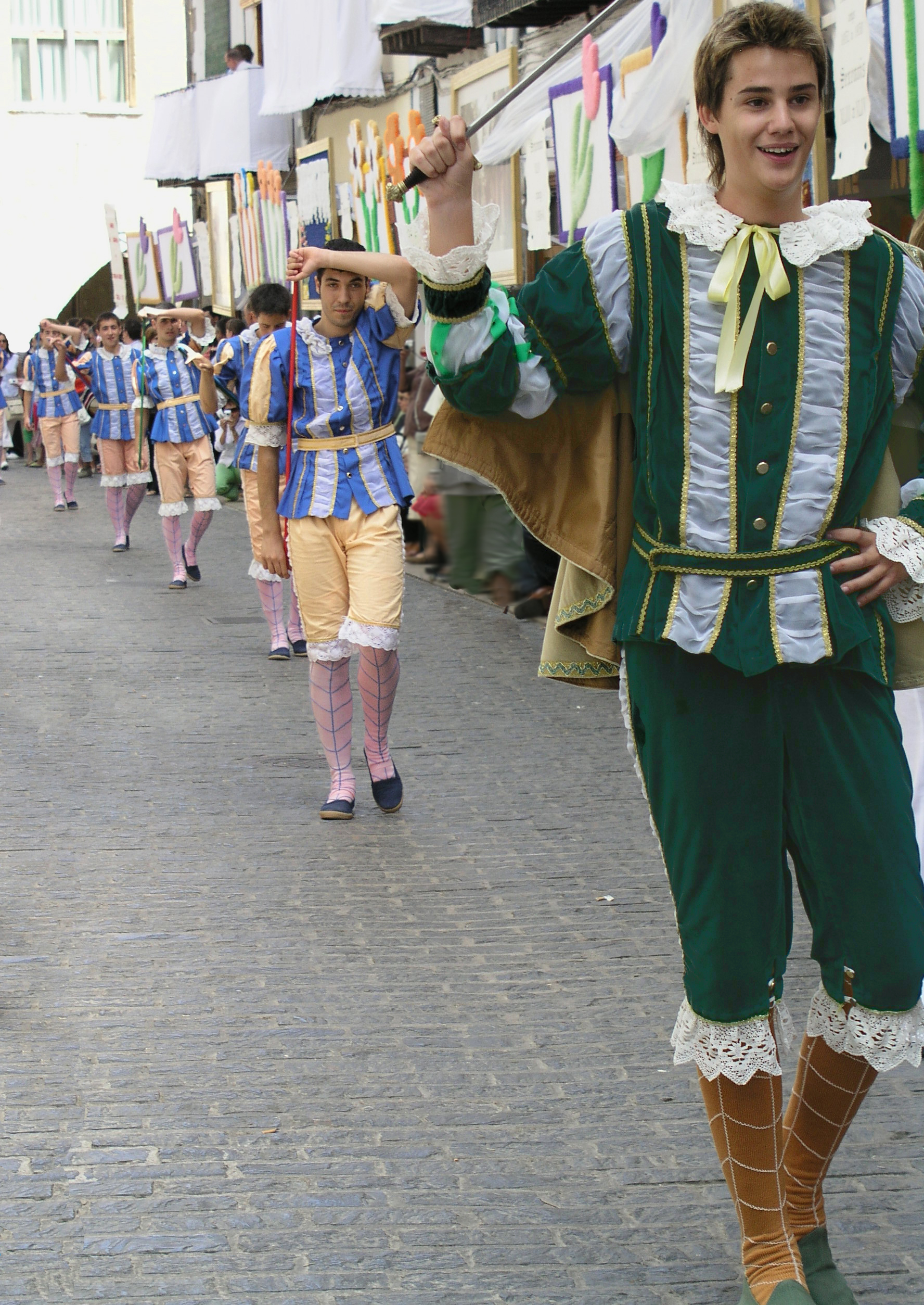 Dance of the Torneros. Sexenni Festival 2006. Morella